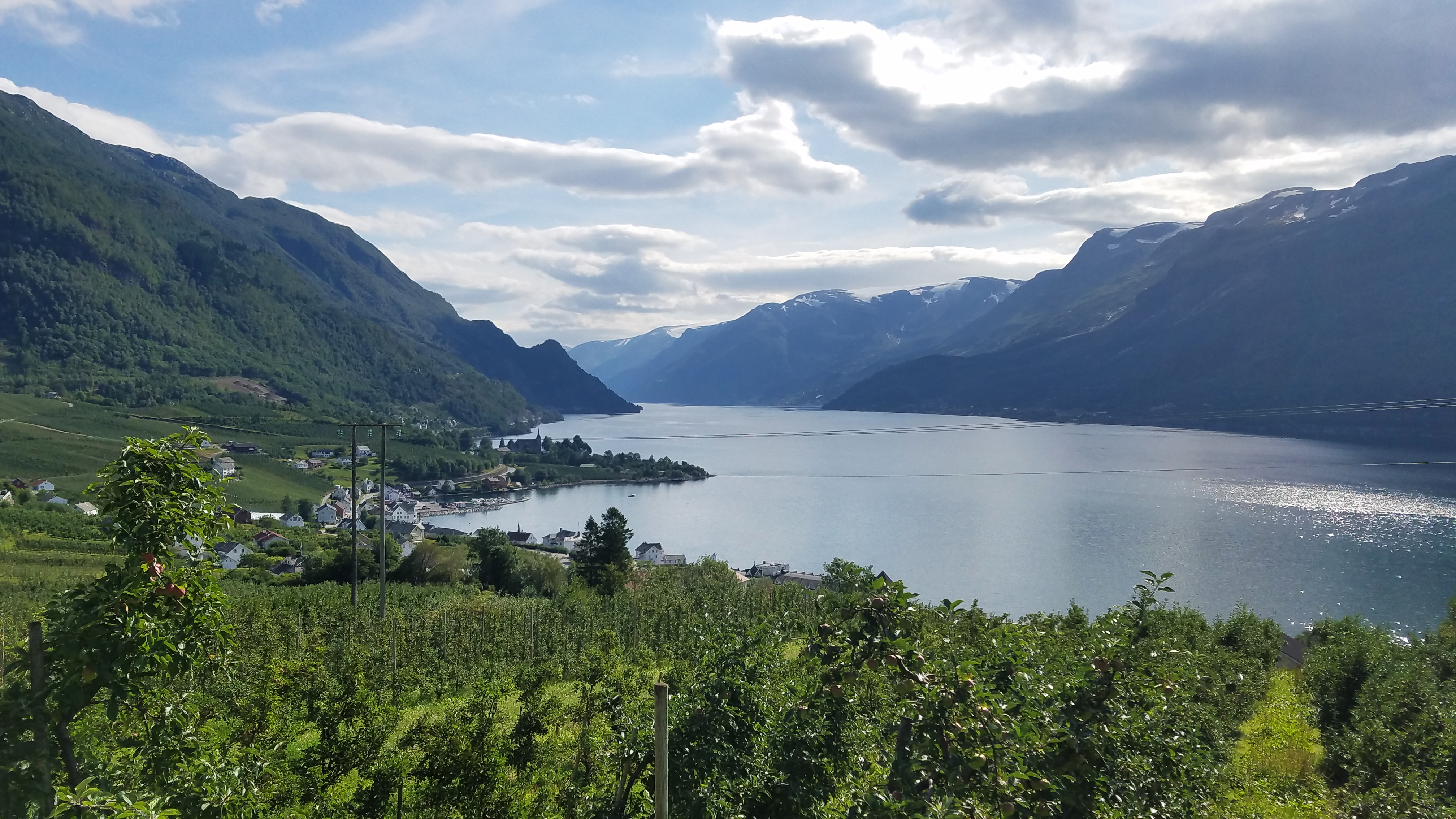 View of Lofthus, Norway Taken on August 1st, 2018